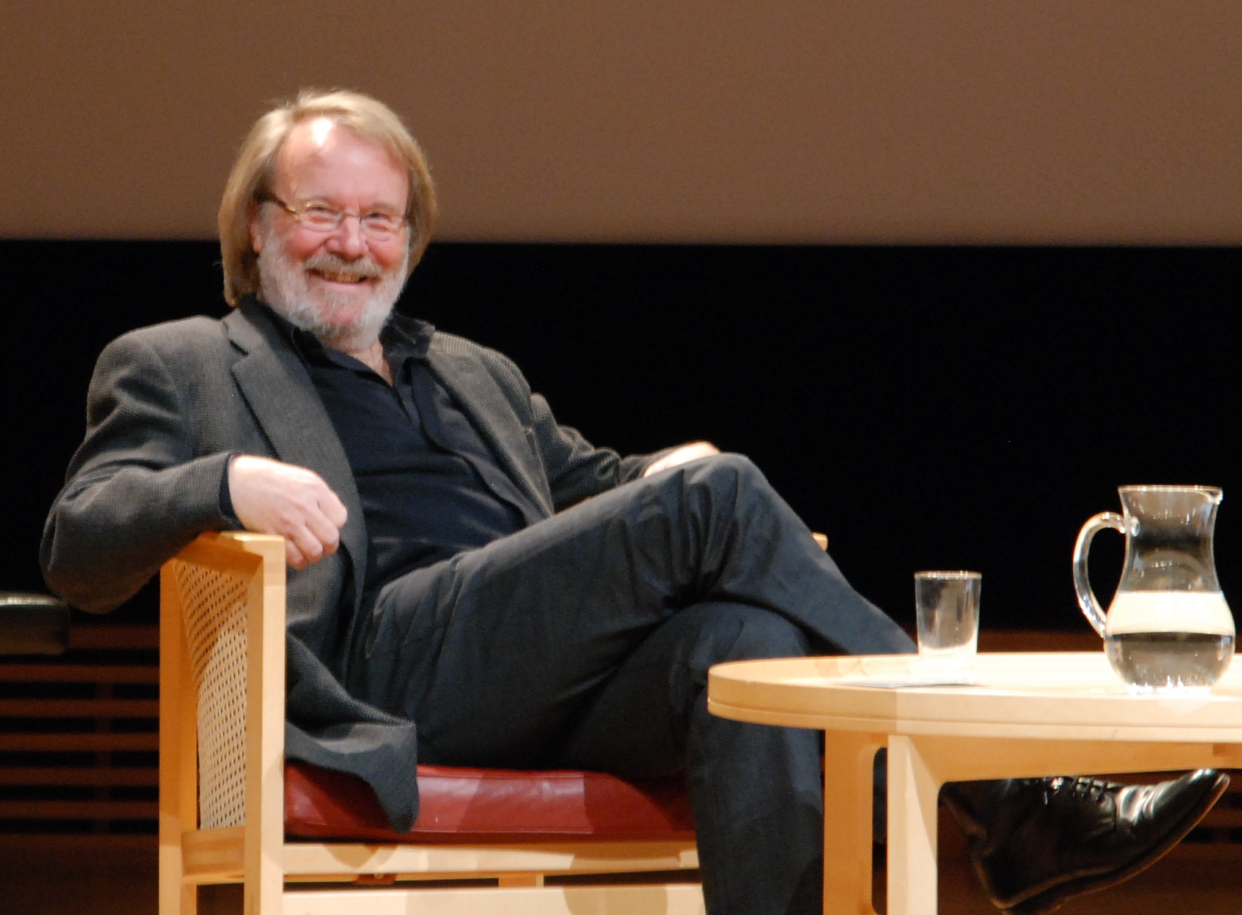 Benny Andersson is talking about his music and his compositions at the Aula Magna at Stockholm University where he is honorary doctor since September 26, 2008